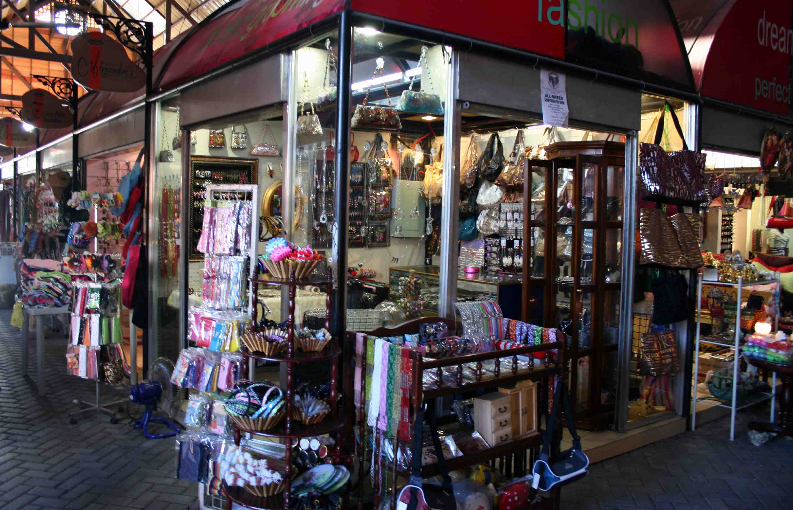 Picture of Novelties Village in Tiendesitas